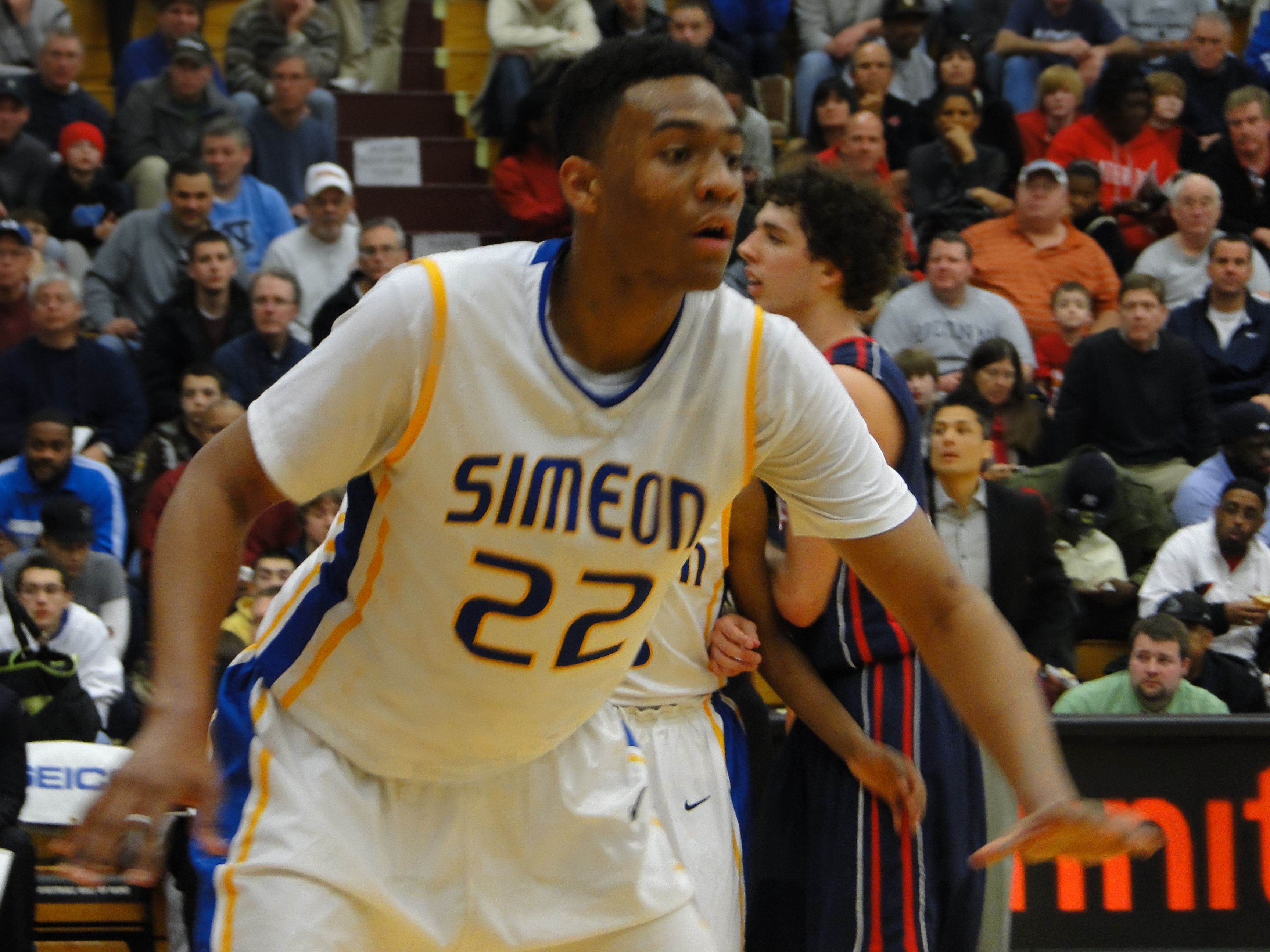 Jabari Parker of Simeon High School